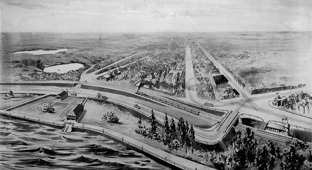 A possible plan for Sunnyside in 1914. The waterfront promenade was not built and a natural beach built. The railway station was different